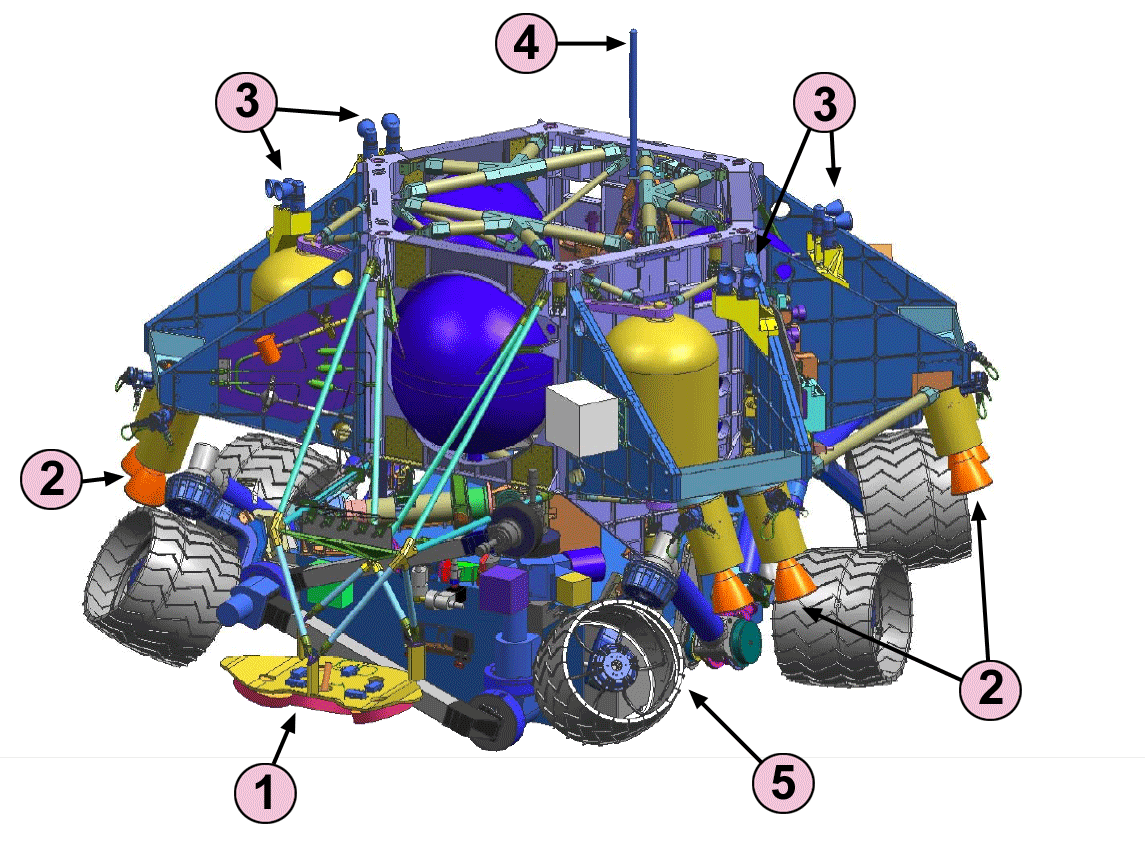 Drawing of the MSL descent stage